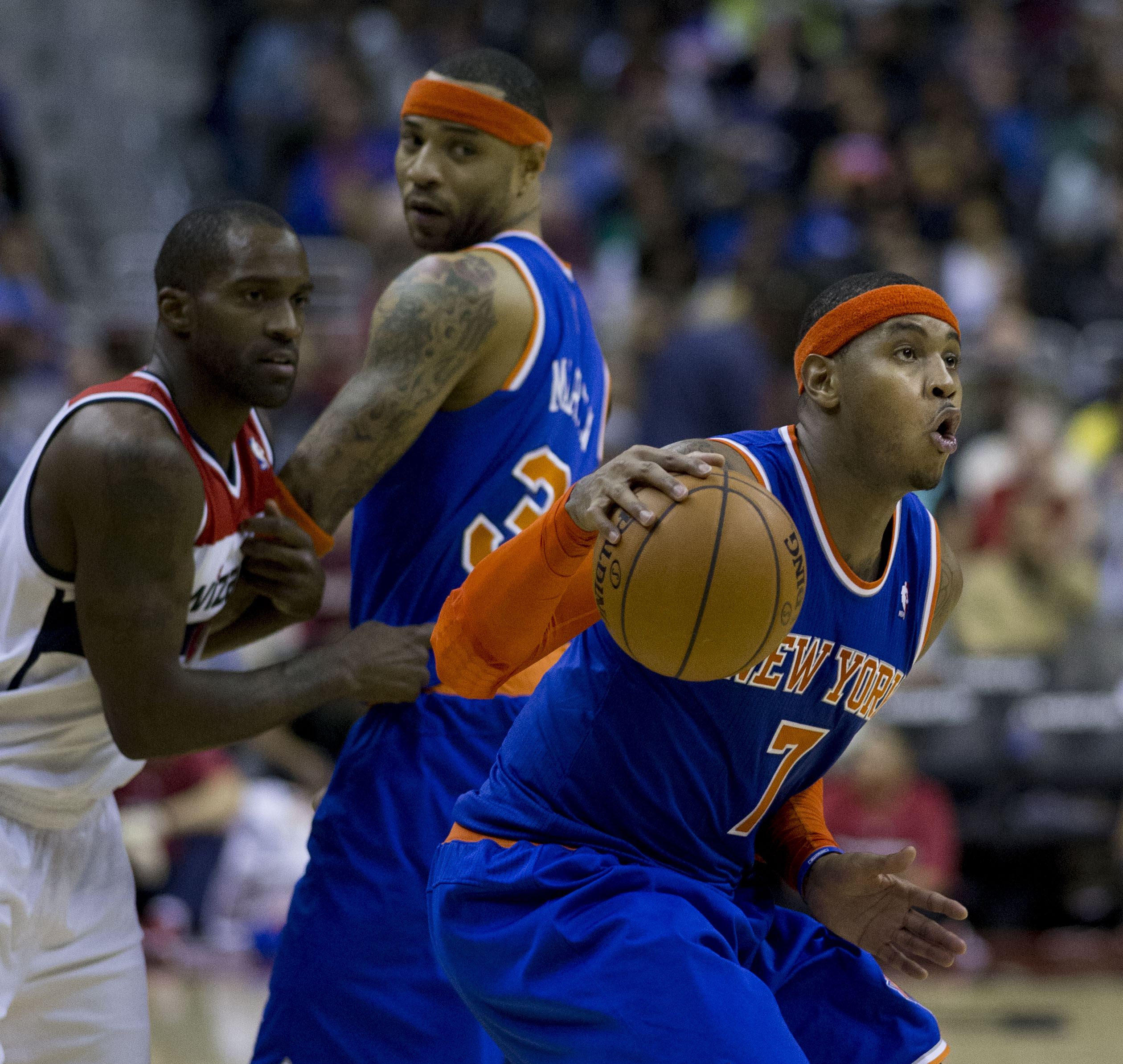 Knicks at Wizards 11/23/13